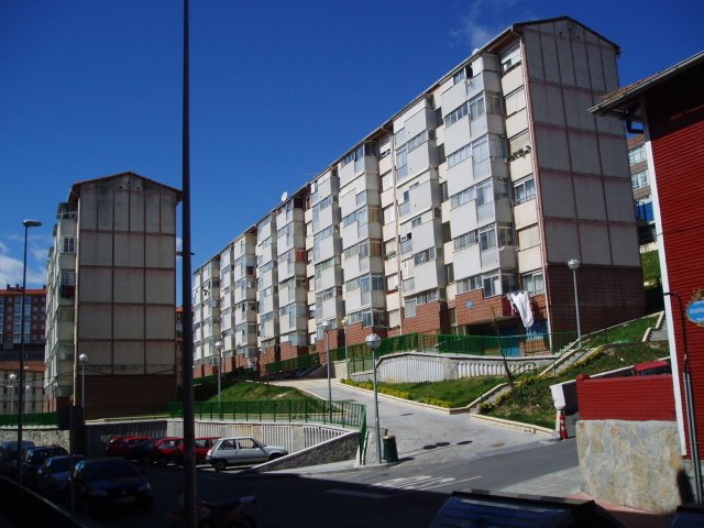 Otxarkoaga district (Bilbao).